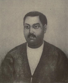 Grish Chunder Ghose, the founder editor of The Hindoo Patriot and The Bengalee. Contemporary oil painting.